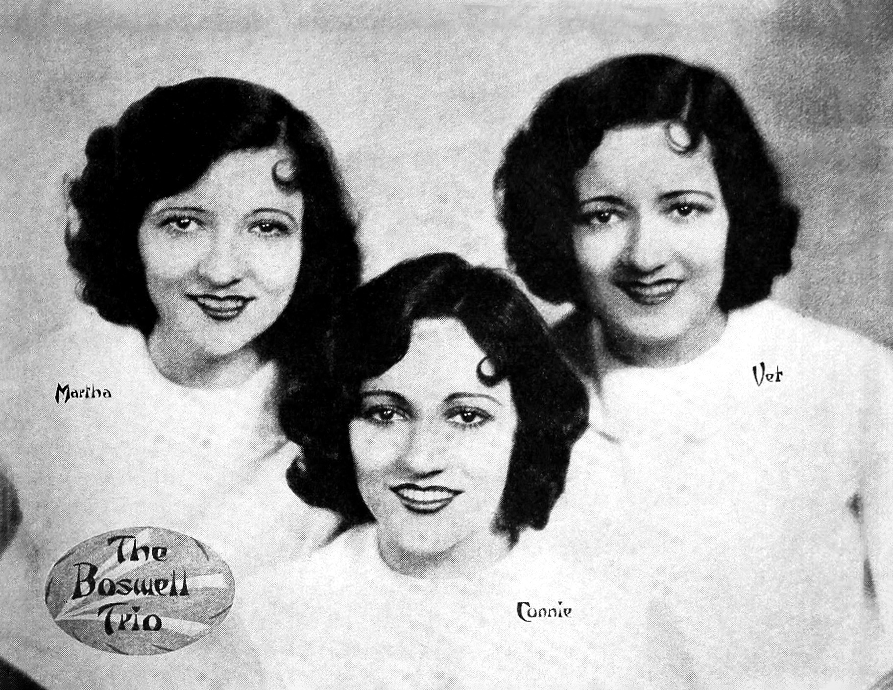 Portrait of The Boswell Sisters, left to right: Martha, Connee, Vet